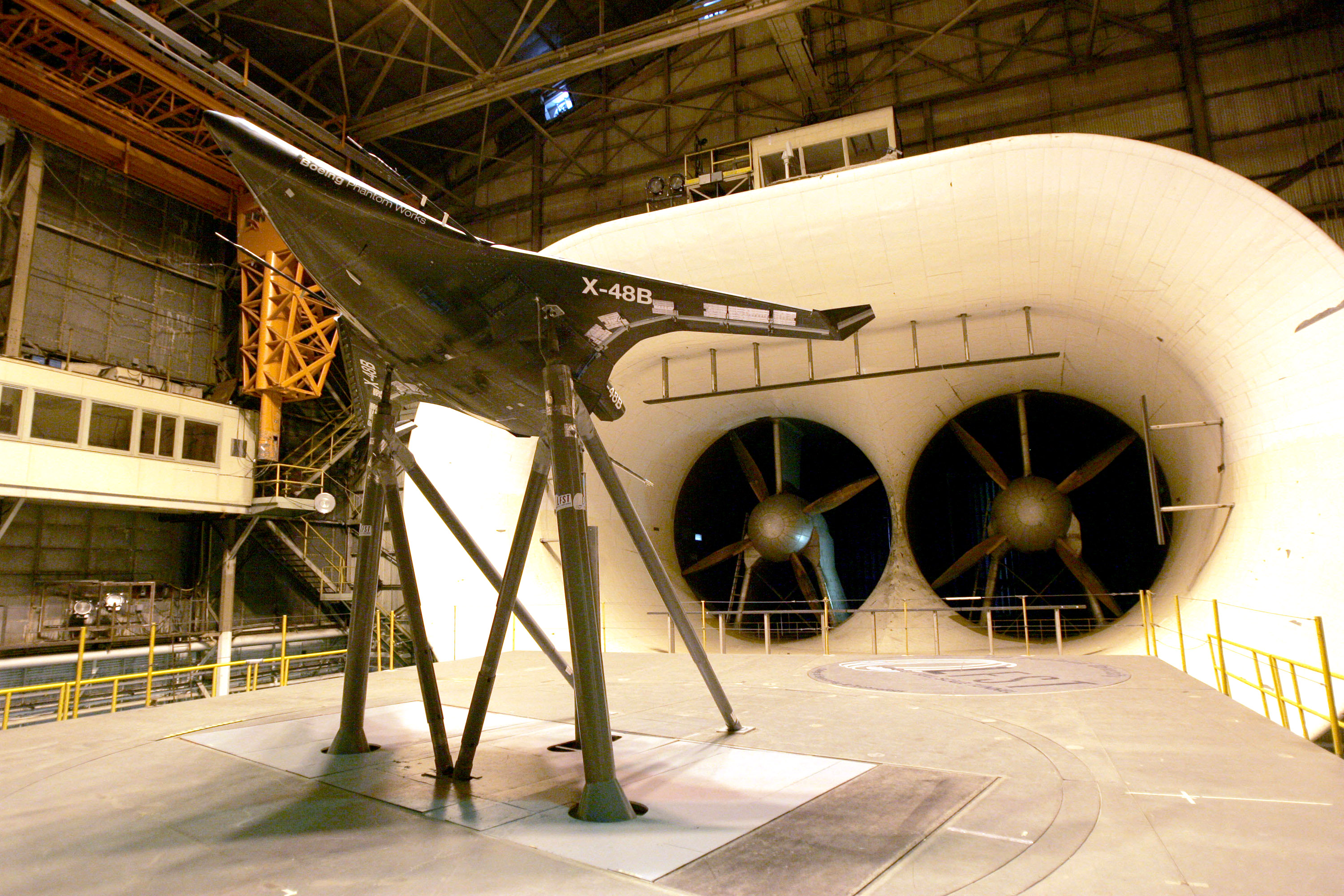 Research lab tests fuel-efficient, flying-wing aircraft Researchers are testing a 21-foot wingspan prototype of the X-48B, a blended wing body aircraft, at the full scale wind tunnel at NASA's research center at Langley Air Force Base, Va. The Air Force Research Laboratory partnered with Boeing Phantom Works and the National Aeronautics and Space Administration to study the structural, aerodynamic and operational advantages of the advanced aircraft concept.